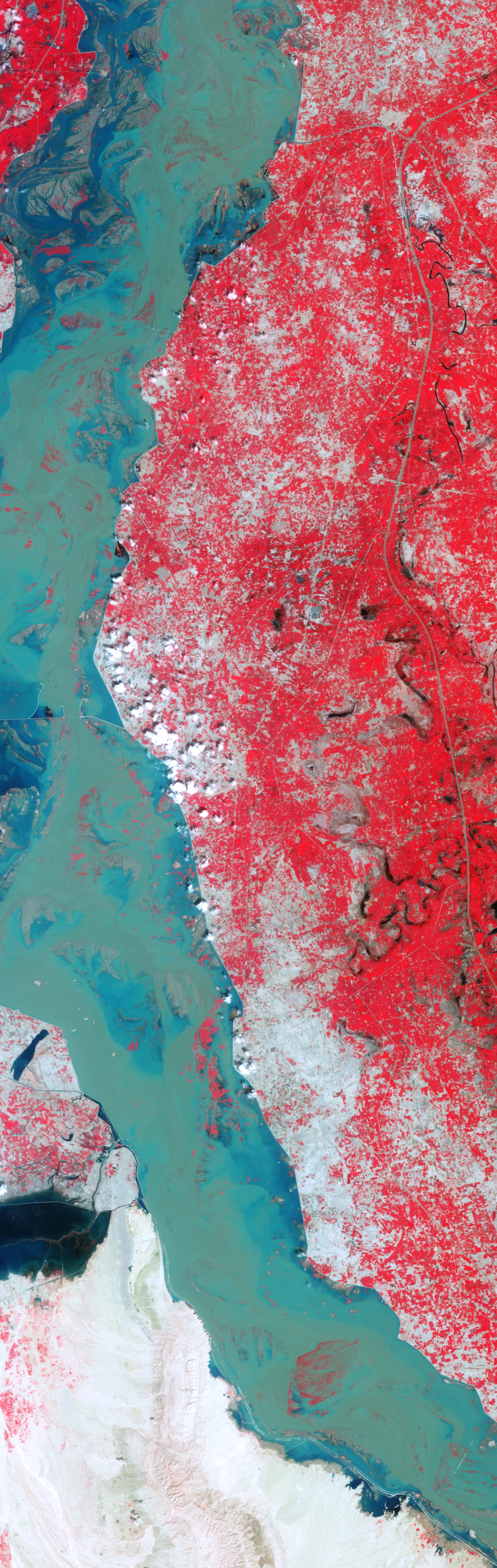 In this false-colour image, vegetation is red, and bare ground and settled areas vary in colour from gray to beige. Water ranges in colour from navy blue to teal. The greenish hue of the Indus River likely results from the flooded river’s heavy sediment load. Patches of red in the river hint at the scale of flooding; these areas are farmland submerged by the swollen Indus. A network of canals connects the Indus to the nearby lake, which also appears flooded. Manchhar Lake (also spelled Manchar Lake) is Pakistan’s largest natural freshwater lake. Located immediately west of the city of Sehwan in the southern Pakistan province of Sindh, Manchhar Lake receives not only rainwater from a vast catchment area in western Sindh, but also fresh river water through the canals. Drainage water also feeds into Manchhar Lake through the Main Nara Valley Drain (not shown), which connects Manchhar to Hamal, another lake to the north.